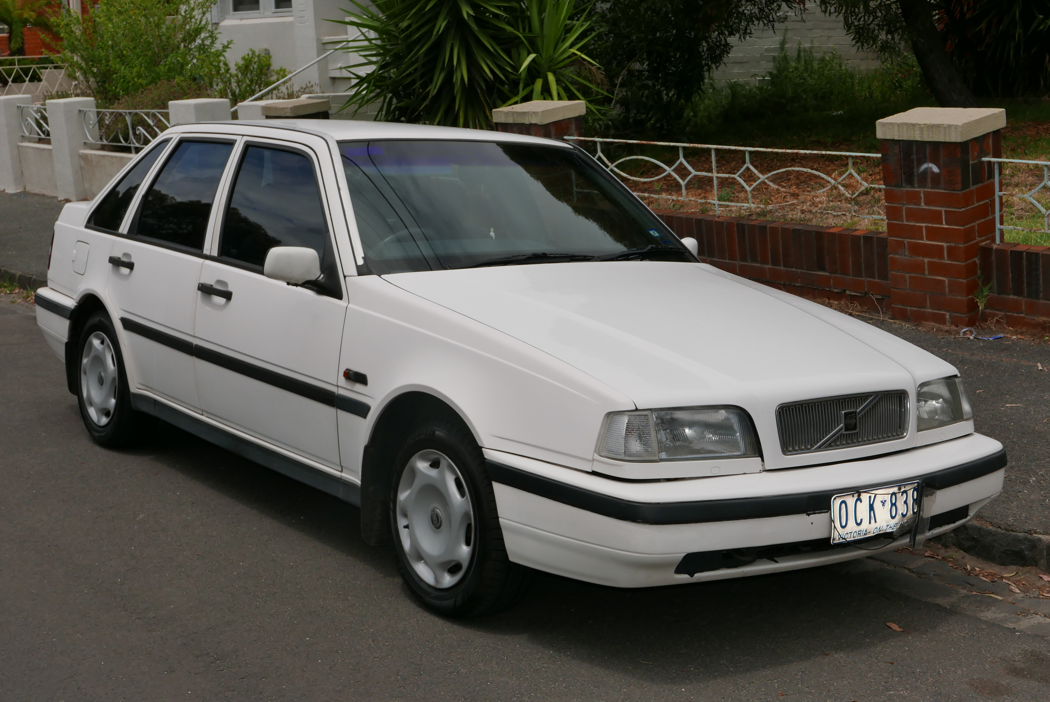 1996 Volvo 440 SE hatchback. Photographed in Brunswick East, Victoria, Australia. Vehicle registration enquiry results Jurisdiction Victoria Registration OCK838 Chassis code XLBKC315ETC703308 Engine code 003097 Compliance date 1996-07 Year of manufacture 1996